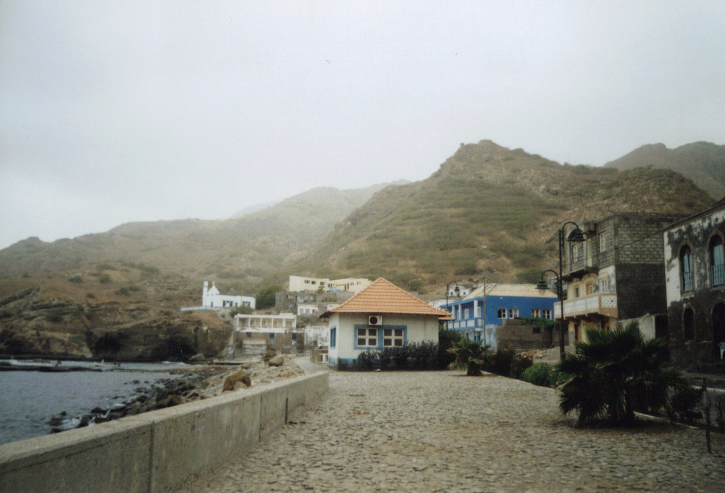 Village of Furna, Cabo Verde